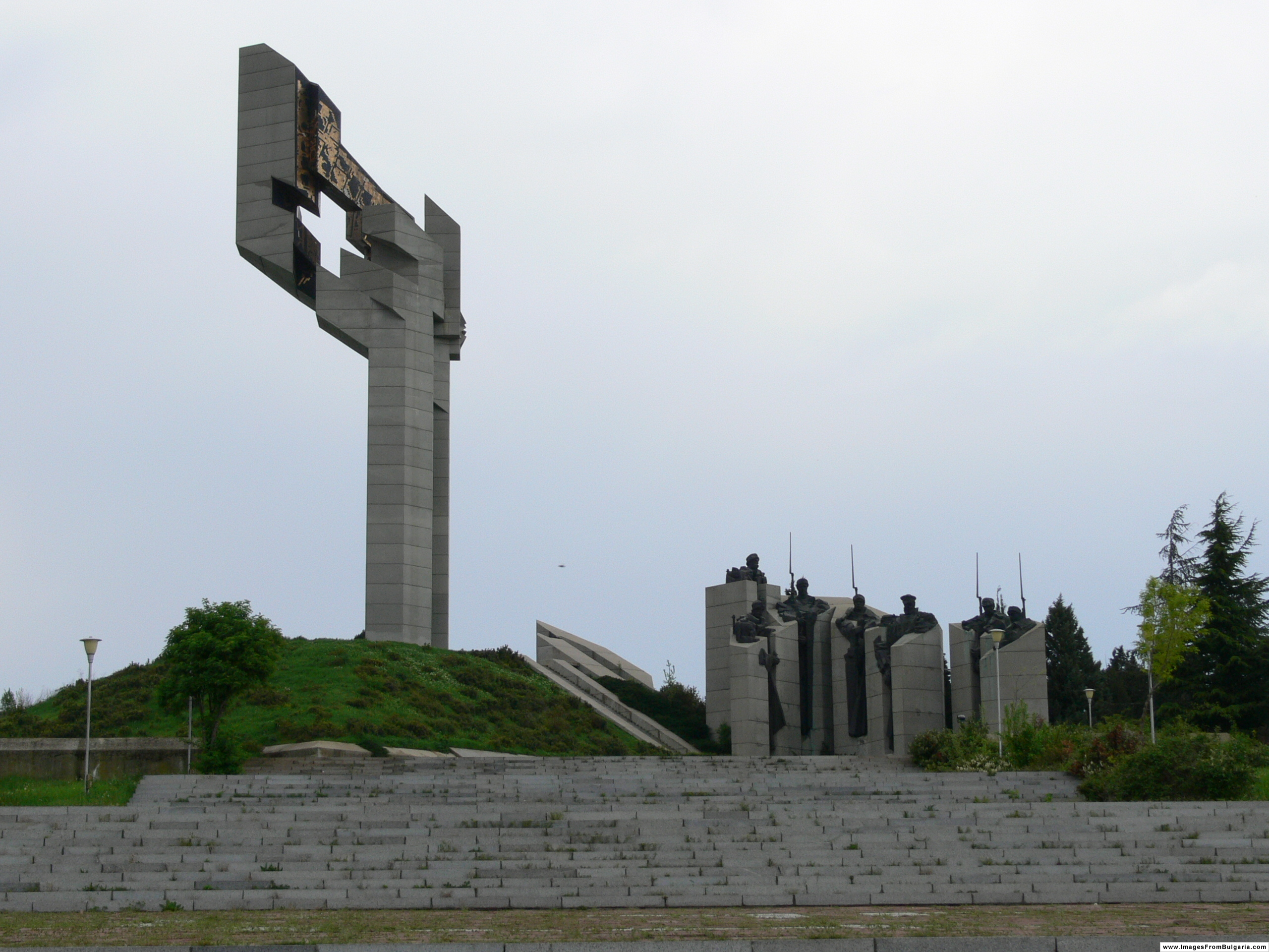 The Memorial to Stara Zagora Defenders of 1877", Stara Zagora, Bulgaria.